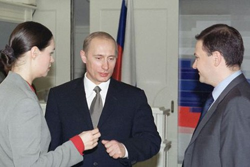 THE KREMLIN, MOSCOW. Vladimir Putin with Yekaterina Andreyeva and Sergei Brilev, TV presenters of the ORT and RTR TV channels, after a live televised question-and-answer session.